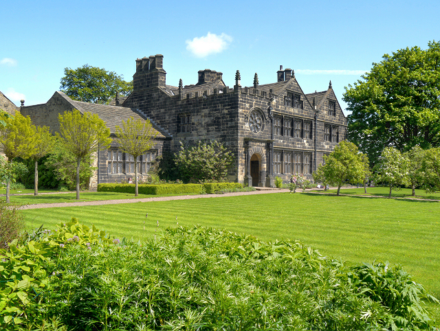 East Riddlesden Hall, near Keighley, West Yorkshire